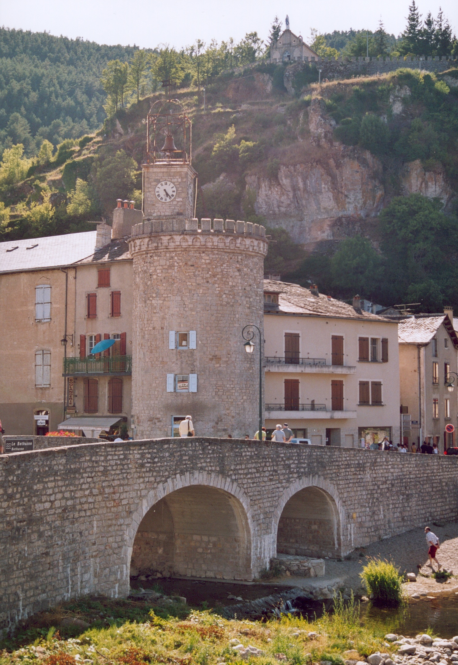 Meyrueis in Lozère (August 2005 , France)